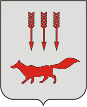 Saransk (Mordovia), coat of arms